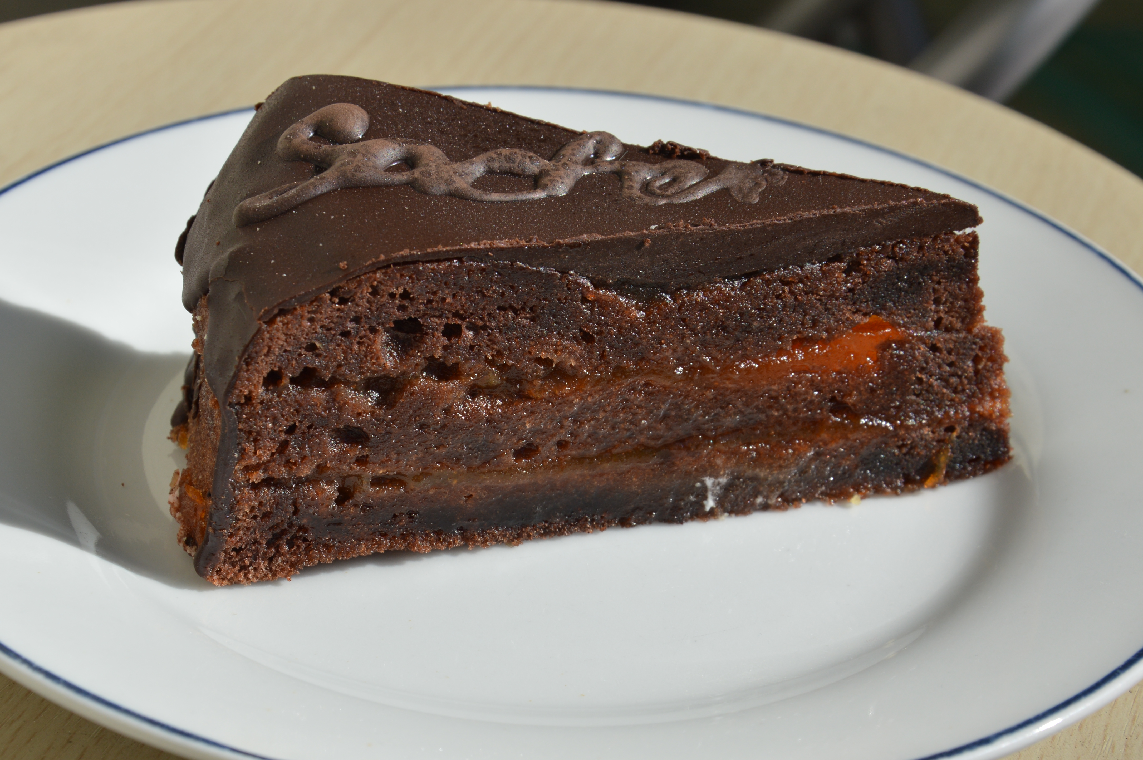 A slice of Sacher Torte as prepared by Ribizli Cukrászda on Nagy Lajos király útja, Budapest District 14, Hungary